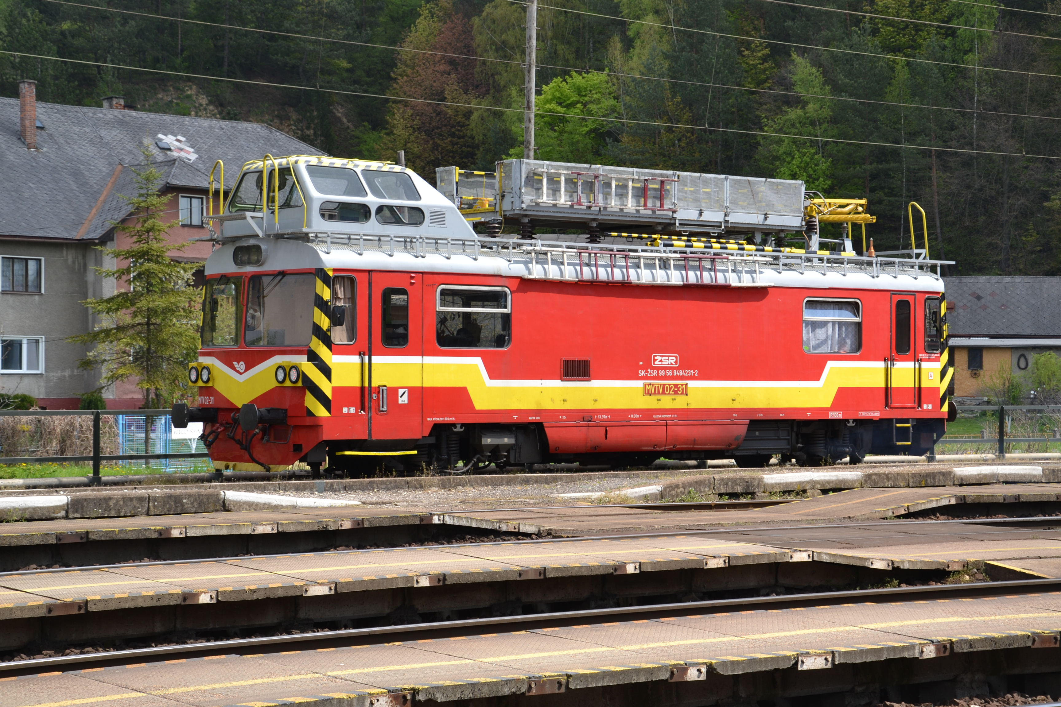 ČD Class 892 (MVTV 02), Ružomberok, Slovakia